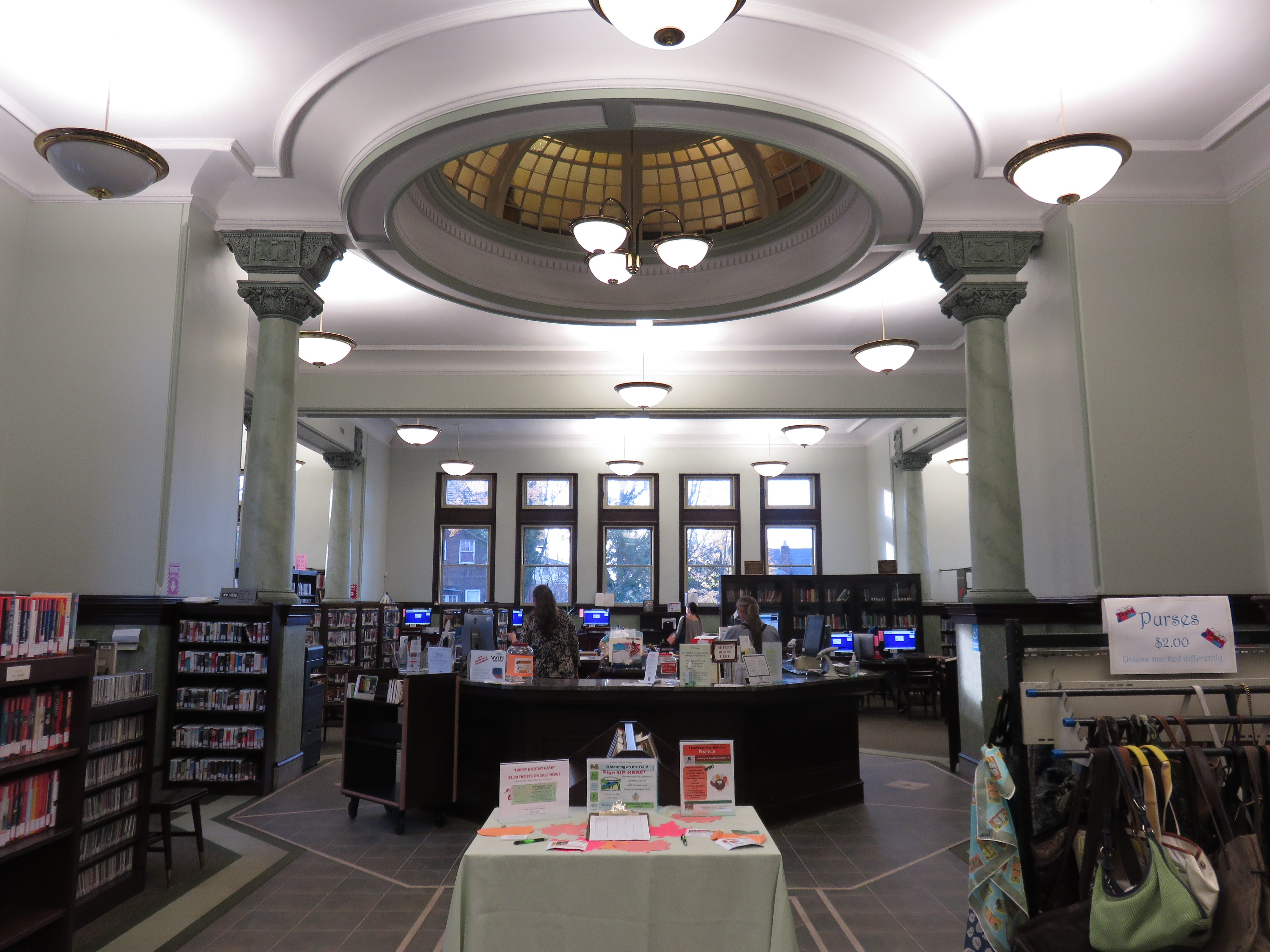 Interior of Carnegie Free Library in McKeesport, Pennsylvania in 2018